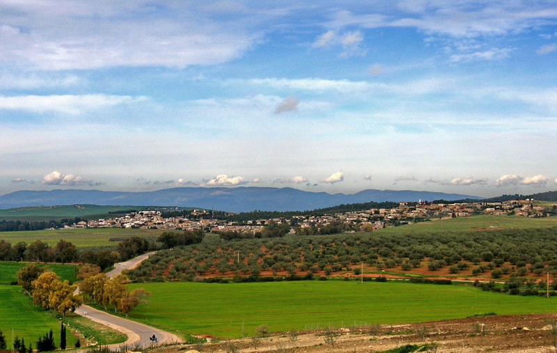 View of Thibar Village